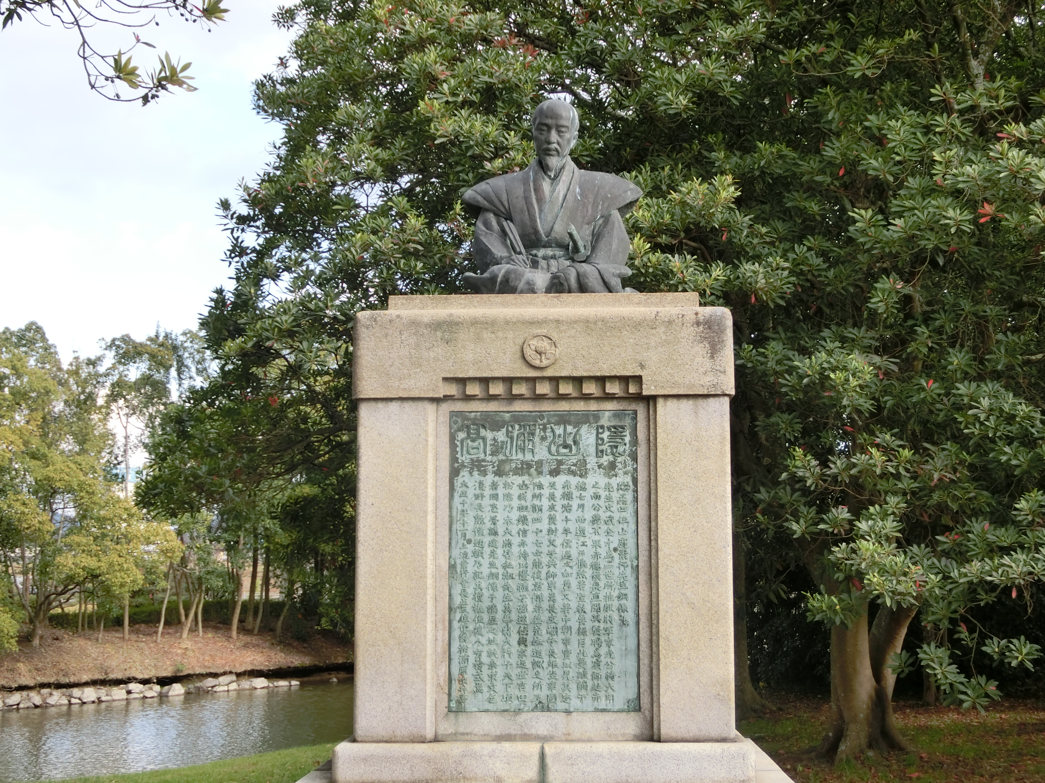 Yamaga Soko Statue